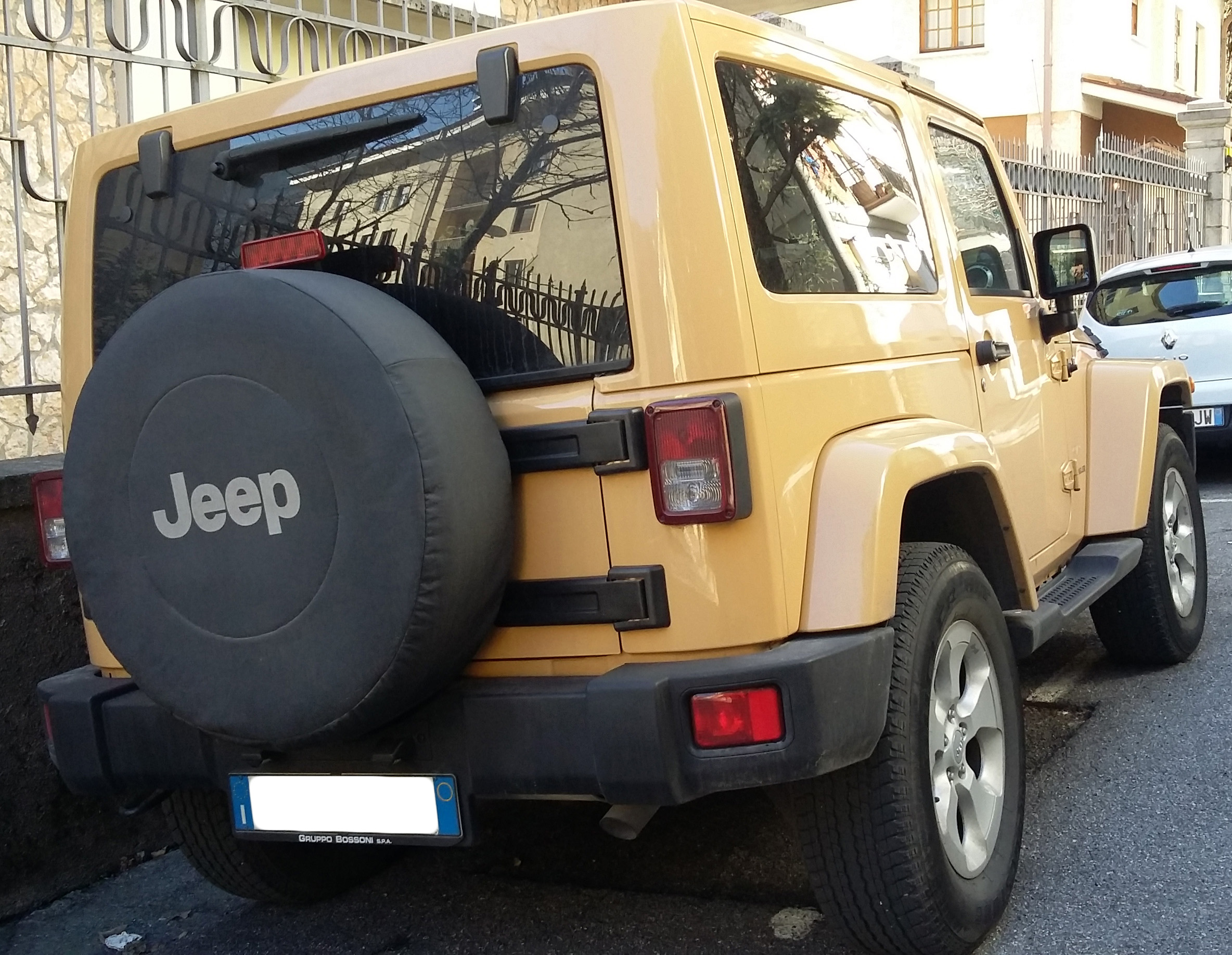 2006-present Jeep Wrangler JK, rear